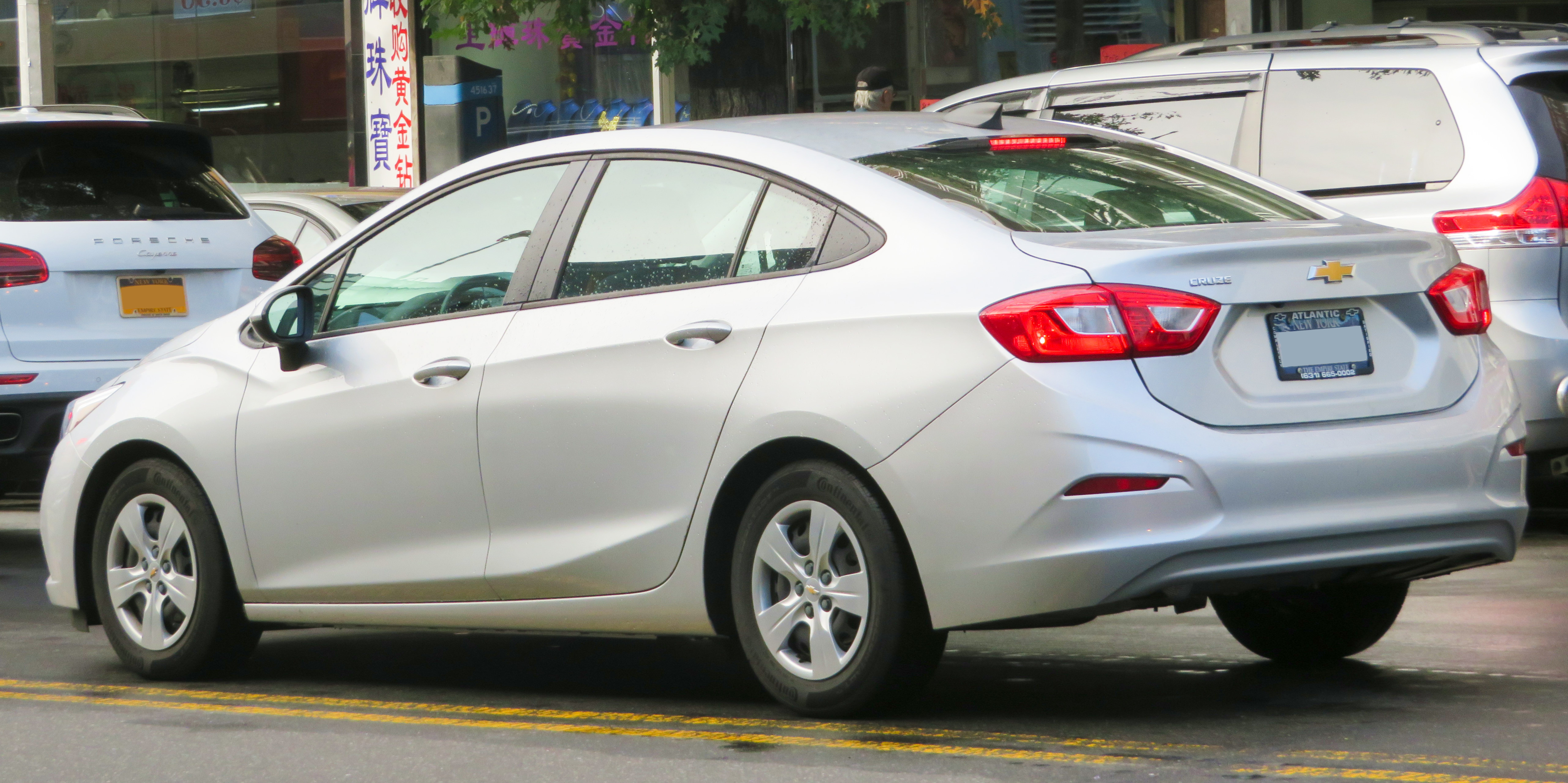 A 2016 Chevrolet Cruze LS photographed in Queens, New York, USA